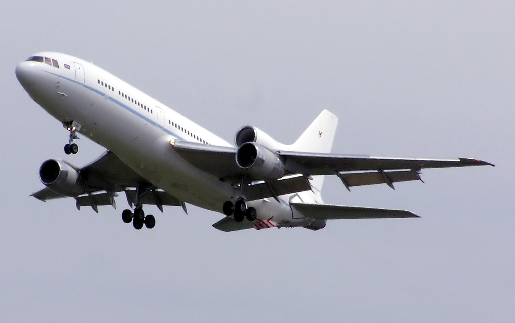 A Royal Air Force Lockheed Tristar does a pass over Kemble airfield, Gloucestershire, England, during Kemble Air Day. Photographed by Adrian Pingstone in June 2005 and released to the public domain.